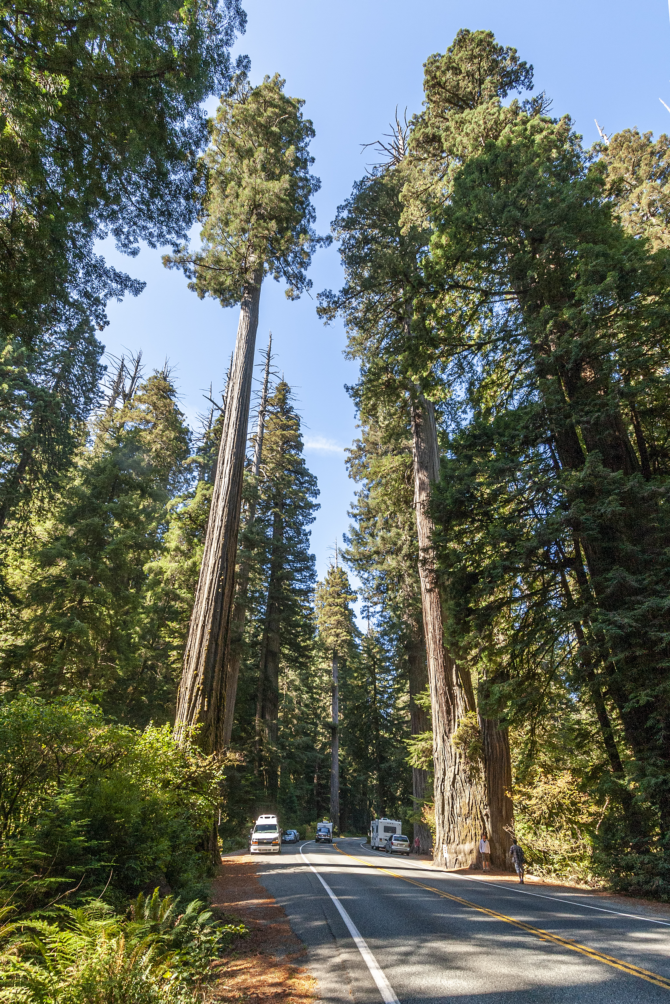 The Simpson-Reed Grove of Coast redwoods (Sequoia sempervirens). U.S. Route 199 in California, the Redwood Highway, at Jedediah Smith State Park near Crescent City, California.